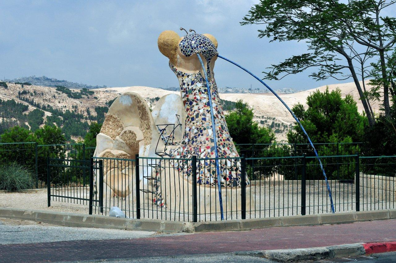 Israel, Ma'ale Adumim, The snail (in hebrew החילזון) - A CHILDRENS PLAYGROUND OPPOSITE MY HOUSE IN MAALE ADUMIM